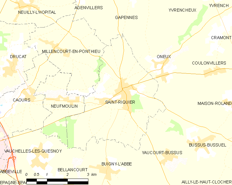 Map of French municipality Saint-Riquier